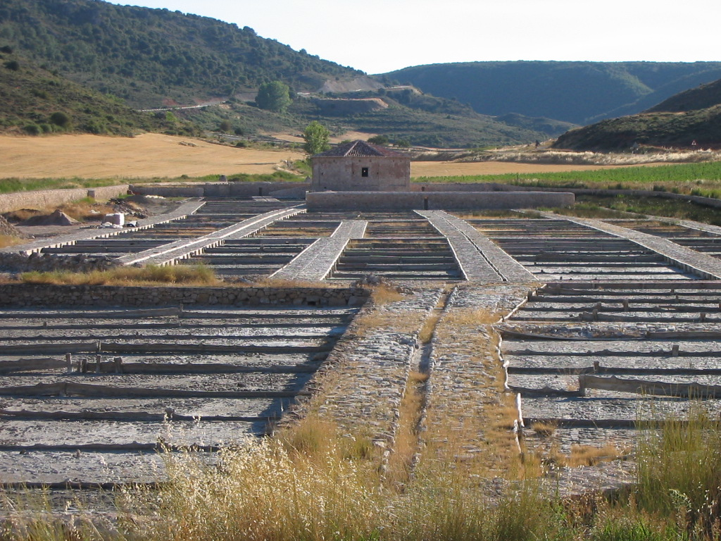 Overview of the ancient salt evaporation ponds of Saelices de la Sal, in Guadalajara, Spain.